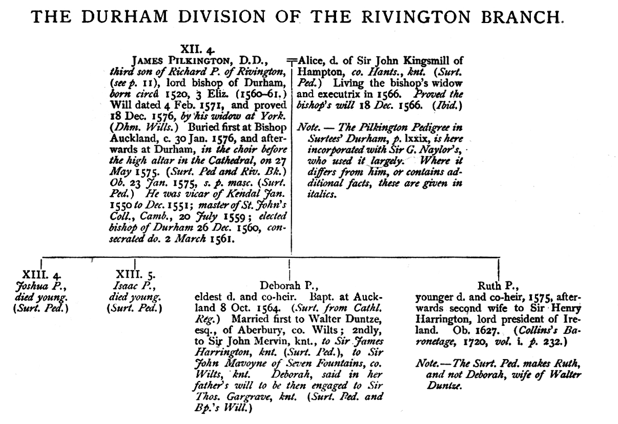 Family of James Pilkington, Bishop of Durham, from Genealogy of the Pilkington Family of Lancashire, 1875 (seven years after death of author)